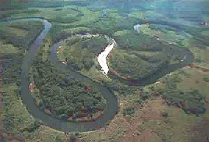 image form city Poá